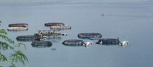 Maitum aqua-culture fishcages. Originally owned by LDC, Inc. now released as GFDL